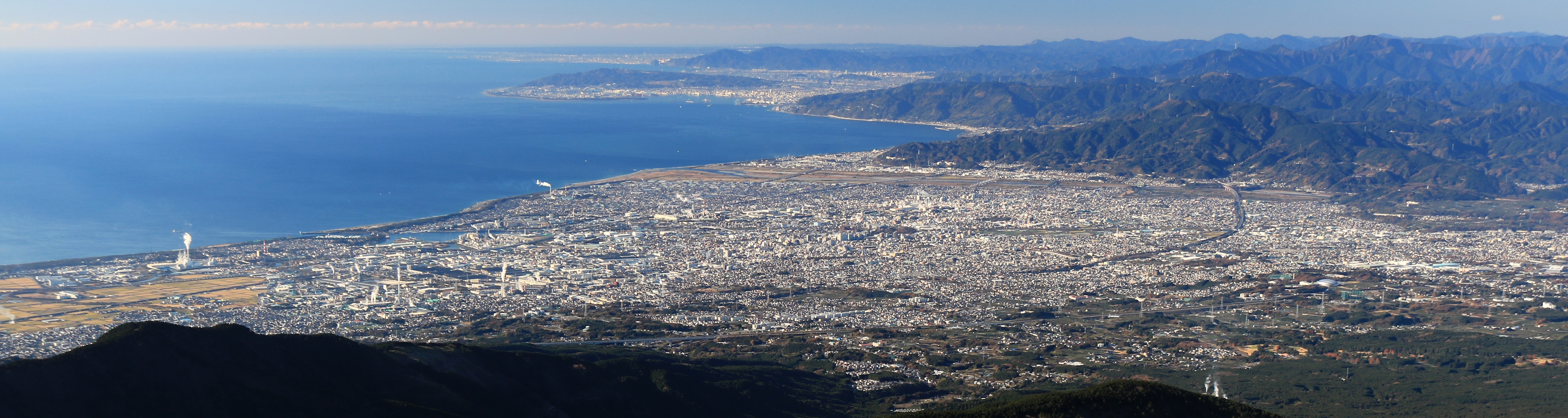 Fuji city and Suruga Bay seen from Ashitaka Mountains in Shizuoka prefecture, Japan.